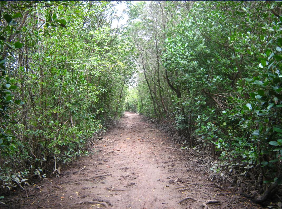 This photograph is taken at Can Gio in the morning. The scene is covered arenga forest which is specific element of Can Gio forest. Used to portray Can Gio essay at Wikipedia.